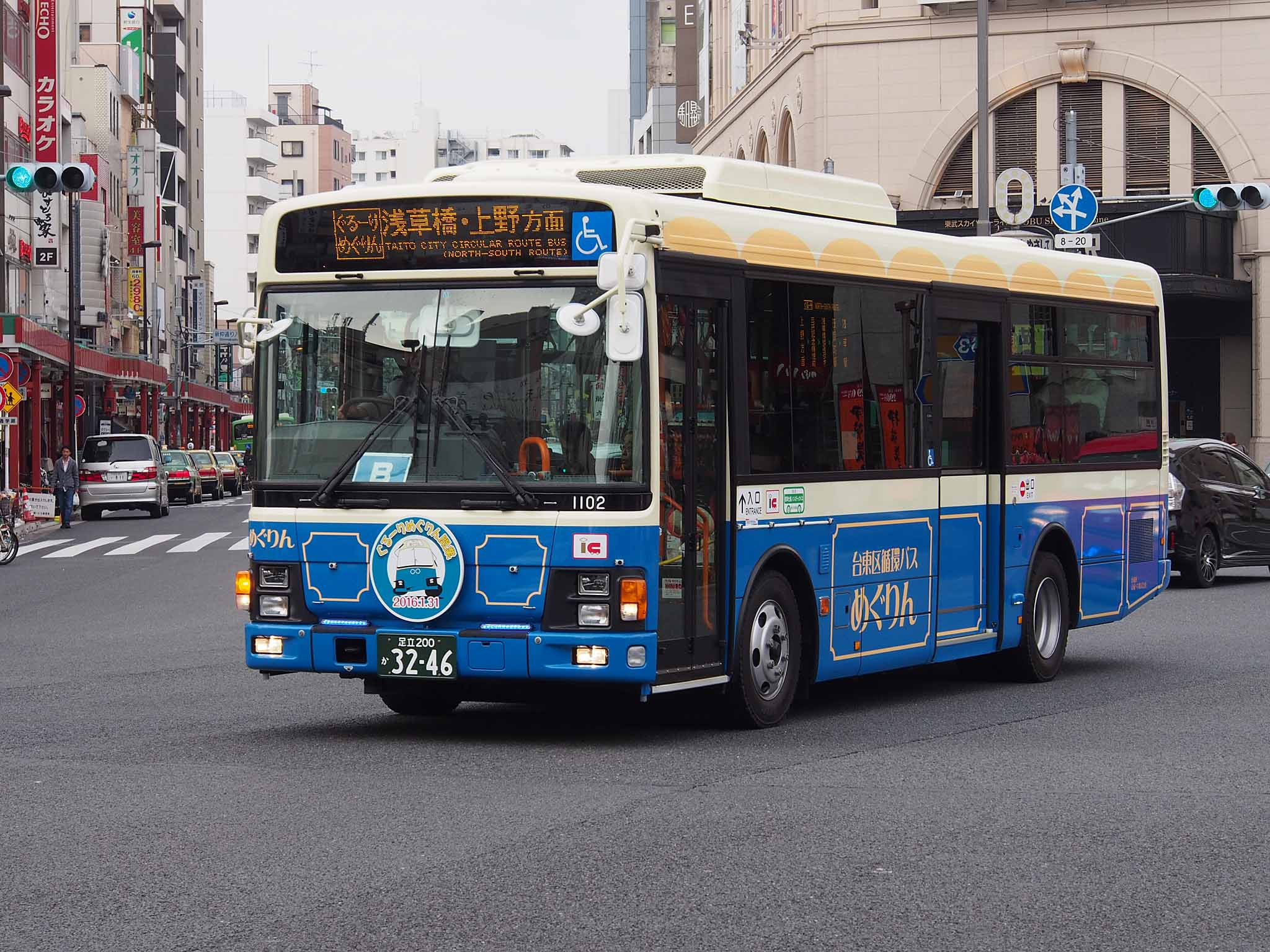 Fleet of Megurin North-South route since January 2016. Model: Isuzu Erga Mio LR290J1 License plate: TKA200KA3246 Operator: Keisei Bus Place: Azumabashi bridge Crossing: Asakusa, Taito Ward, Tokyo Japan